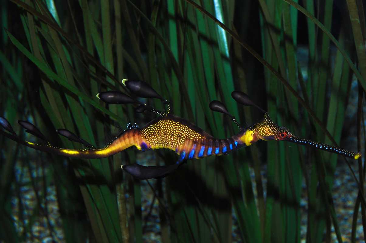 Weedy Seadragon (Phyllopteryx taeniolatus)